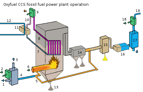 A schematic showing the operation of a oxyfuel carbon capture and storage (CCS) fossil fuel power plant. The schematic was based on the image at , and the information in EOS magazine, March 2010. 1= air inlet 2= mechanical energy is supplied 3= nitrogen outlet 4= oxygen outlet 5= recycled exhaust gas inlet 6= fuel inlet (ie coal, ...) 7= cold water pipe 8= steam inlet pipe 9= steam turbine 10= steam outlet pipe 11= steam condensor 12= cooling pipe of steam condensor 13= bottom ash 14= fly-ash removal 15= sulphur + gypsum removal 16= cooler 17= water condensor (water removal) 18= mechanical energy is supplied (CO²-compressor) 19= CO² outlet Note 1: 6, 7 and 8 form the whole of the firebox Note 2: for the workings of the steam condensor (a non essential part, simply increases efficiency)